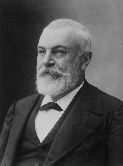 French economist and politician Yves Guyot (1843-1928) photographed by Nadar.